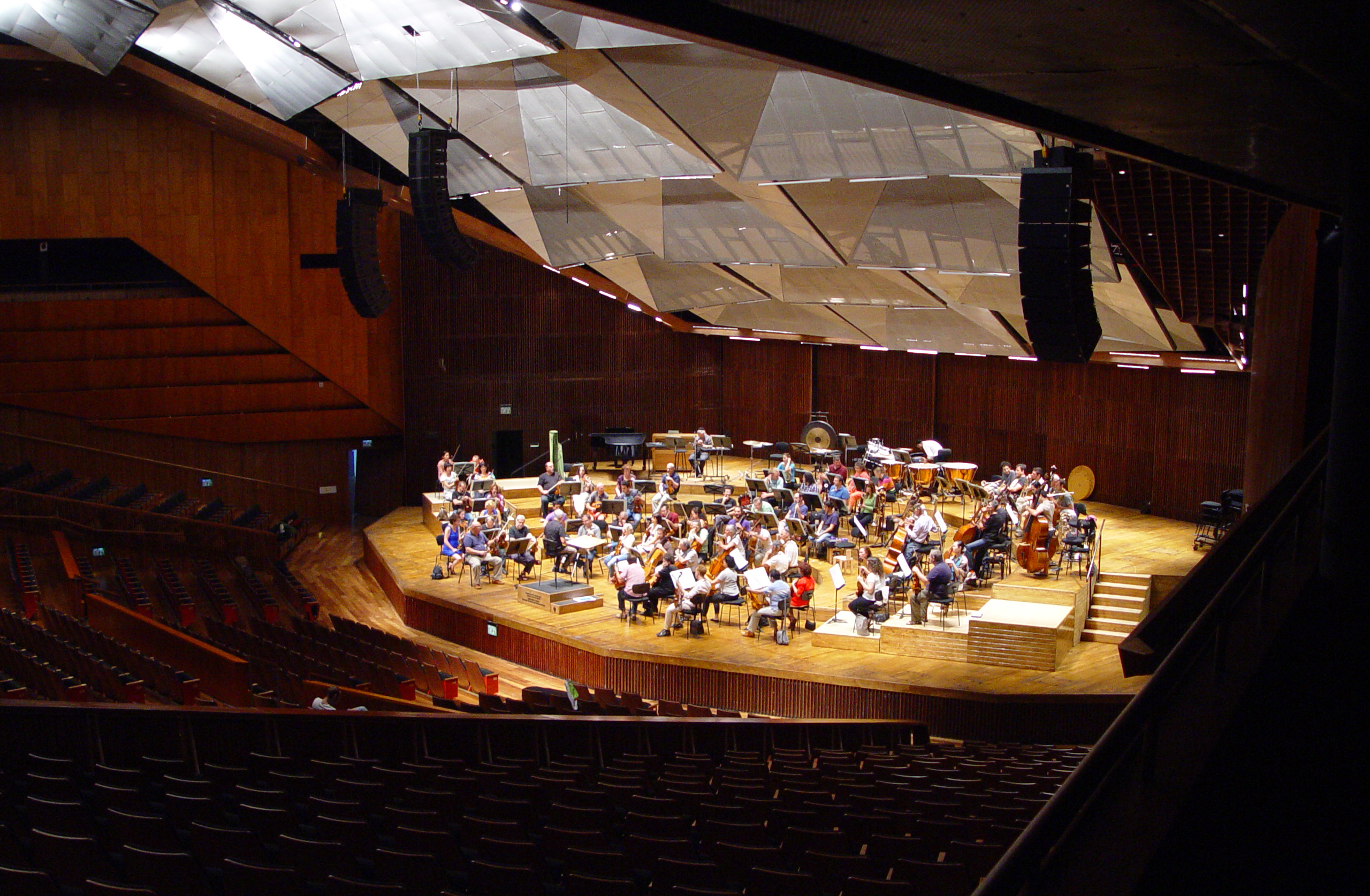 The Culture Palace (Heichal Hatarbut) concert hall in Tel Aviv